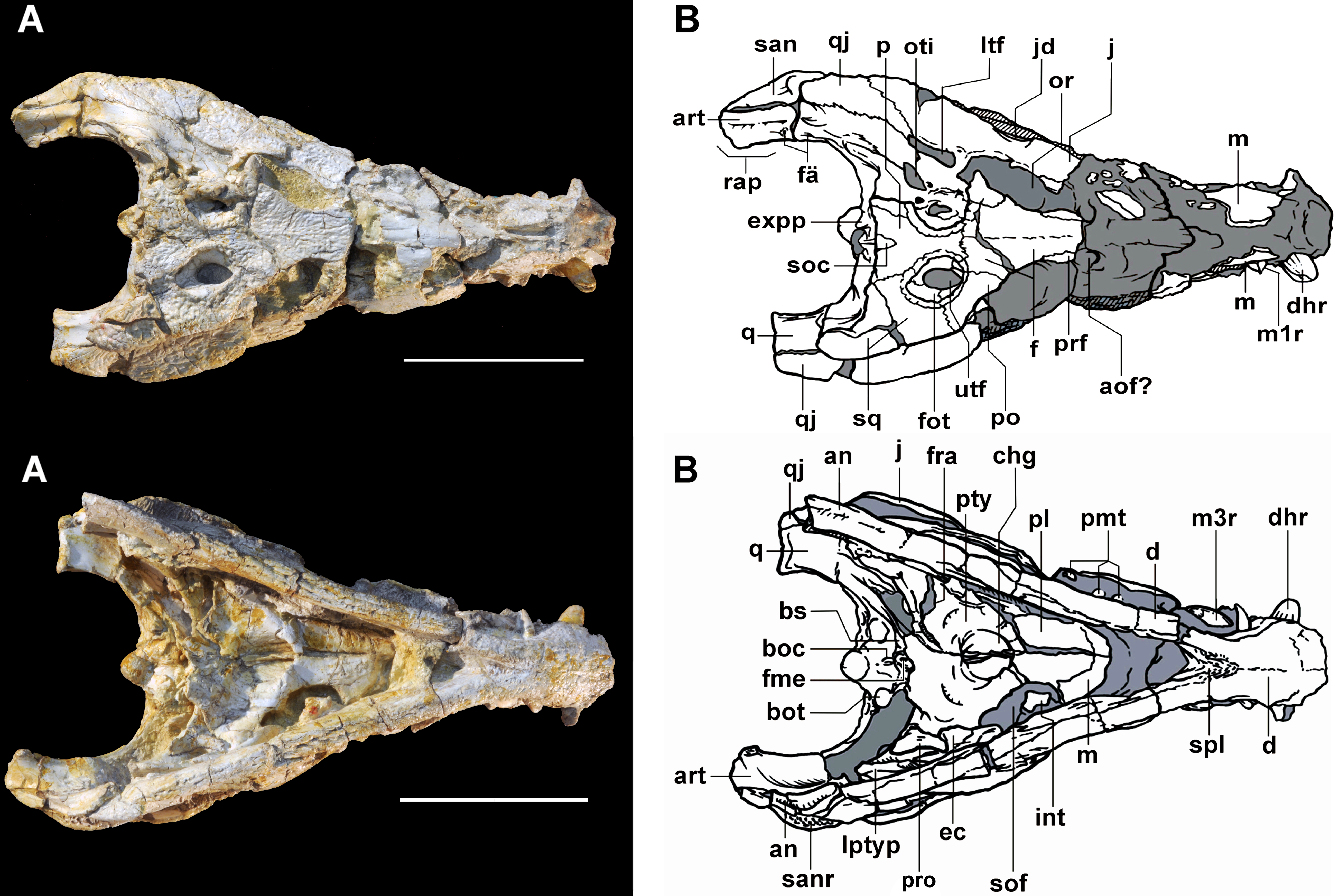 Sahitysuchus fluminensis gen. et sp. nov. (MCT 1730-R), in dorsal and ventral view. A, photo; B, illustration. 9–12th mlt, eighth to eleven left maxillary teeth; an, angular; anr, angular ridge; afo, mandibular adductor fossa; aof?, antorbital fenestra?; art, articular; bs, basisphenoid; bo, basioccipital; boc, basioccipital middle crest; bot, basioccipital basal tubera; chg, choanal groove; cq, cranio-quadrate passage; d, dentary; dhl, left hypertrophied replacement tooth; dhr, right hypertrophied dentary tooth; ec, ectopterygoid; expp, exoccipital posterior process; f, frontal; fä, foramen aereum; fcp, foramen caroticum posterius; fic, foramen intermandibularis caudalis; fme, median Eustachian foramen; fot, upper temporal fossa; fra, fractured area; fv, foramen vagi; int, intercentrum; j, jugal; jd, jugal latero-ventral depression; l; lachrymal; lptyp, lateral pterygoidal process (flange); ltf, laterotemporal fenestra; m, maxilla; m1l, first left maxillary tooth; m1r, first right maxillary tooth; m3l, third left maxillary tooth; m3r, third right maxillary tooth; m4l, fourth left maxillary tooth; m5l, fifth left maxillary tooth ; nc, nuchal crest; occ, occipital condyle; or, orbit; oti, otic incisure; oto, otoccipital; p, parietal; pl, palatine; pmt, posterior maxillary teeth; po, postorbital; pop, para-occipital process; pfr, prefrontal; pro, proatlas; pty, pterygoid; q, quadrate; qd, quadrate depression; qdc, quadrate dorsal crest; qj, quadratojugal; rap, retroarticular process; san, surangular; sanr, surangular lateral ridge; sf, siphoneal foramen; soc, supraoccipital; sof, suborbital fenestra; spl, splenial; sq, squamosal; sqp, squamosal posterior process (squamosal prong); utf, upper temporal fenestra; XII, twelfth cranial nerve exit. Scale bar: 100 mm.